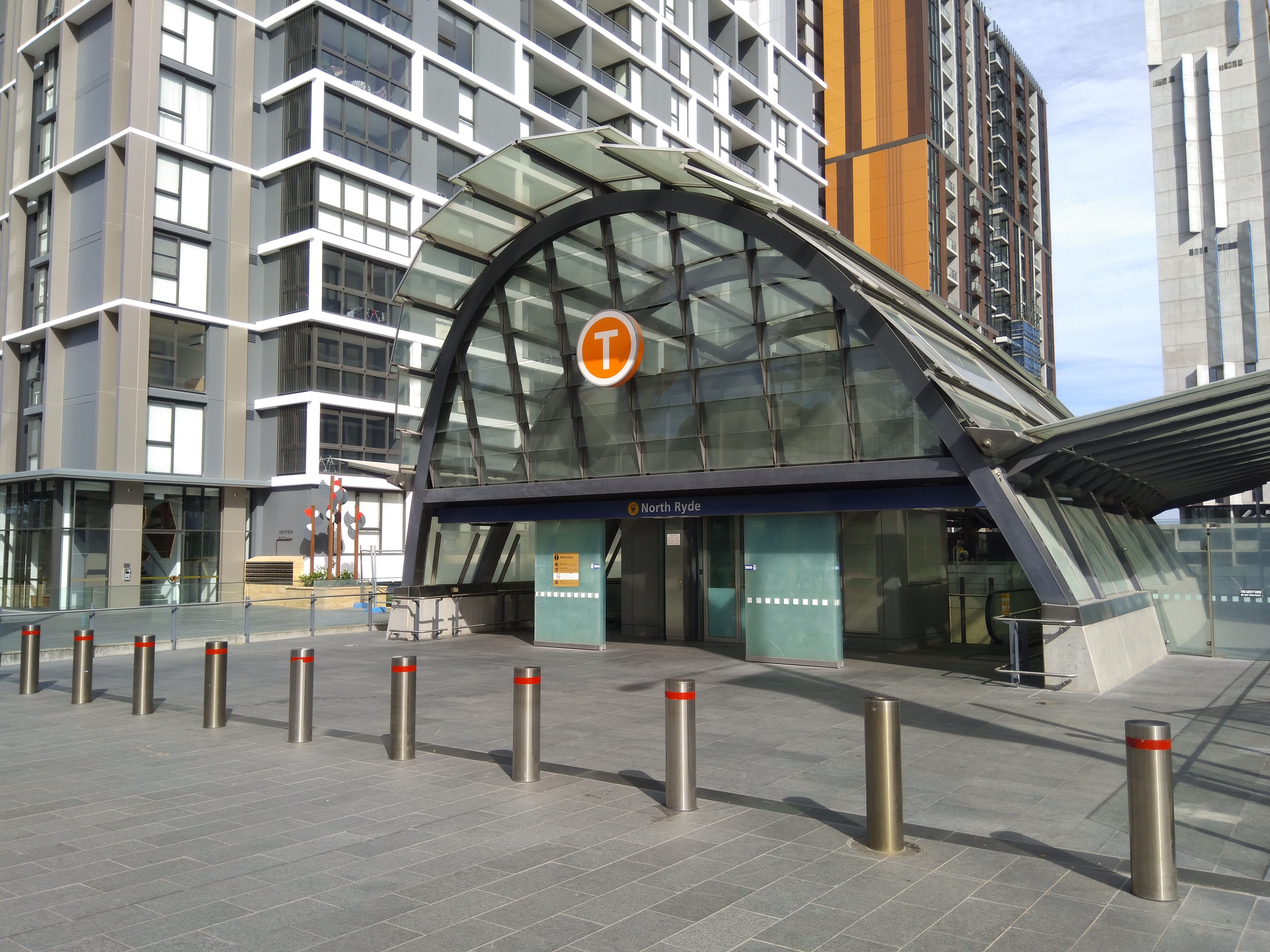 North Ryde railway station entrance.